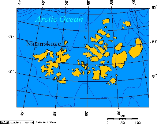 Nagurskoye, Russia's most northerly settlement